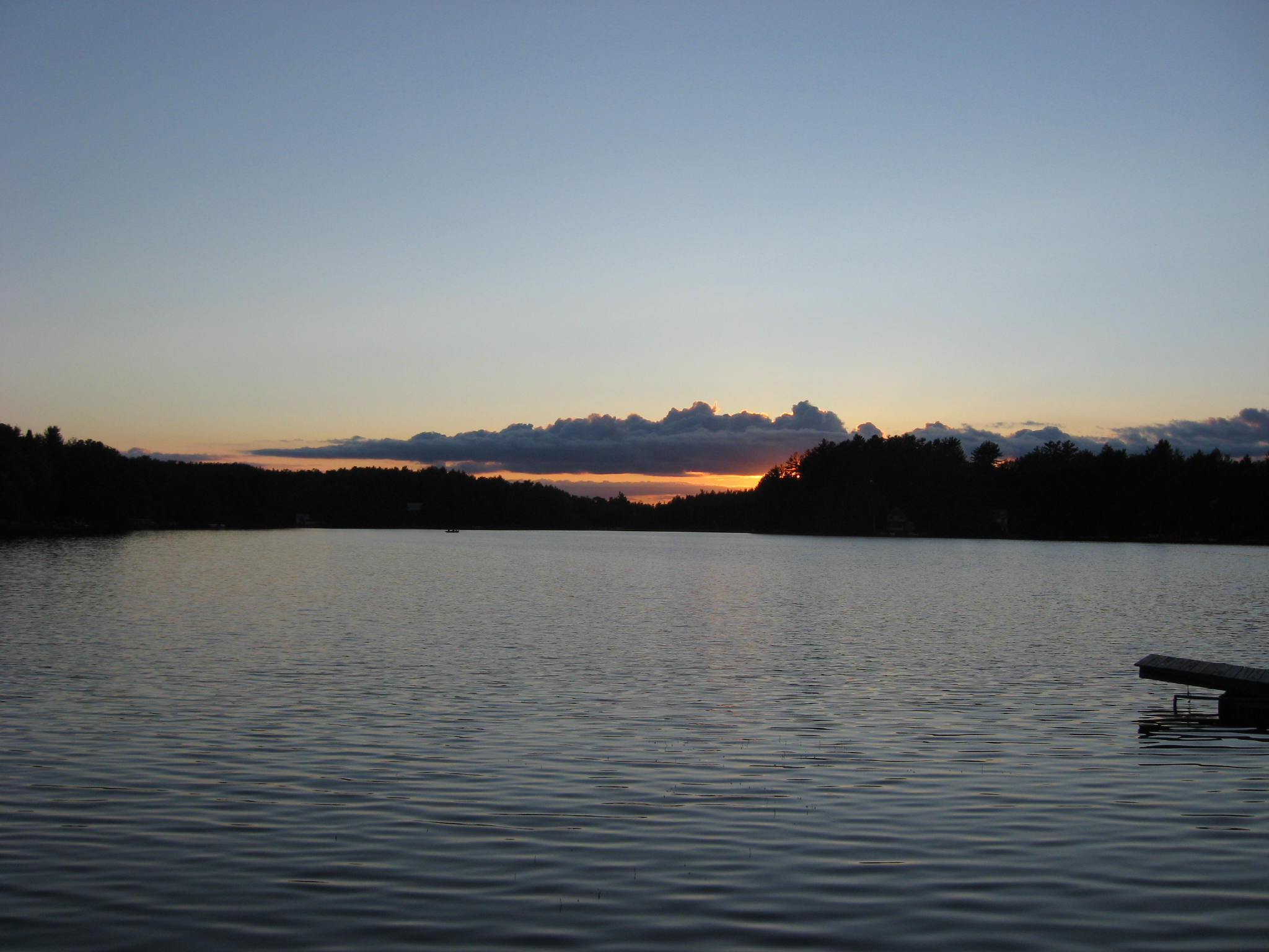 View of Mountain Lake (New York) at sunset during the summer.